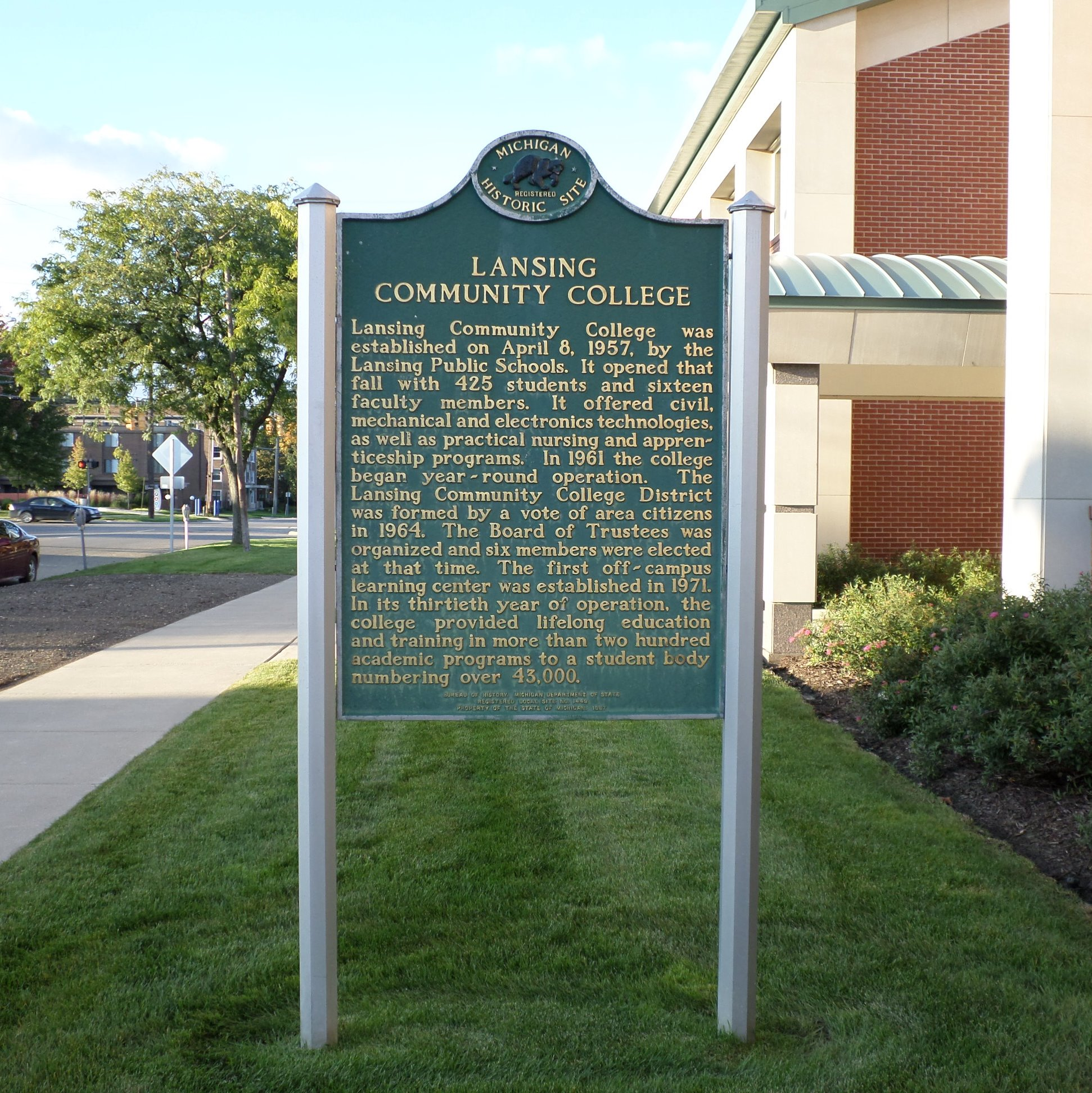 A sign honoring Lansing Community College, located at 610 N. Capitol Ave, Lansing, MI.